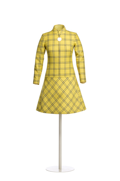 Yellow wool minidress by Herrera y Ollero.